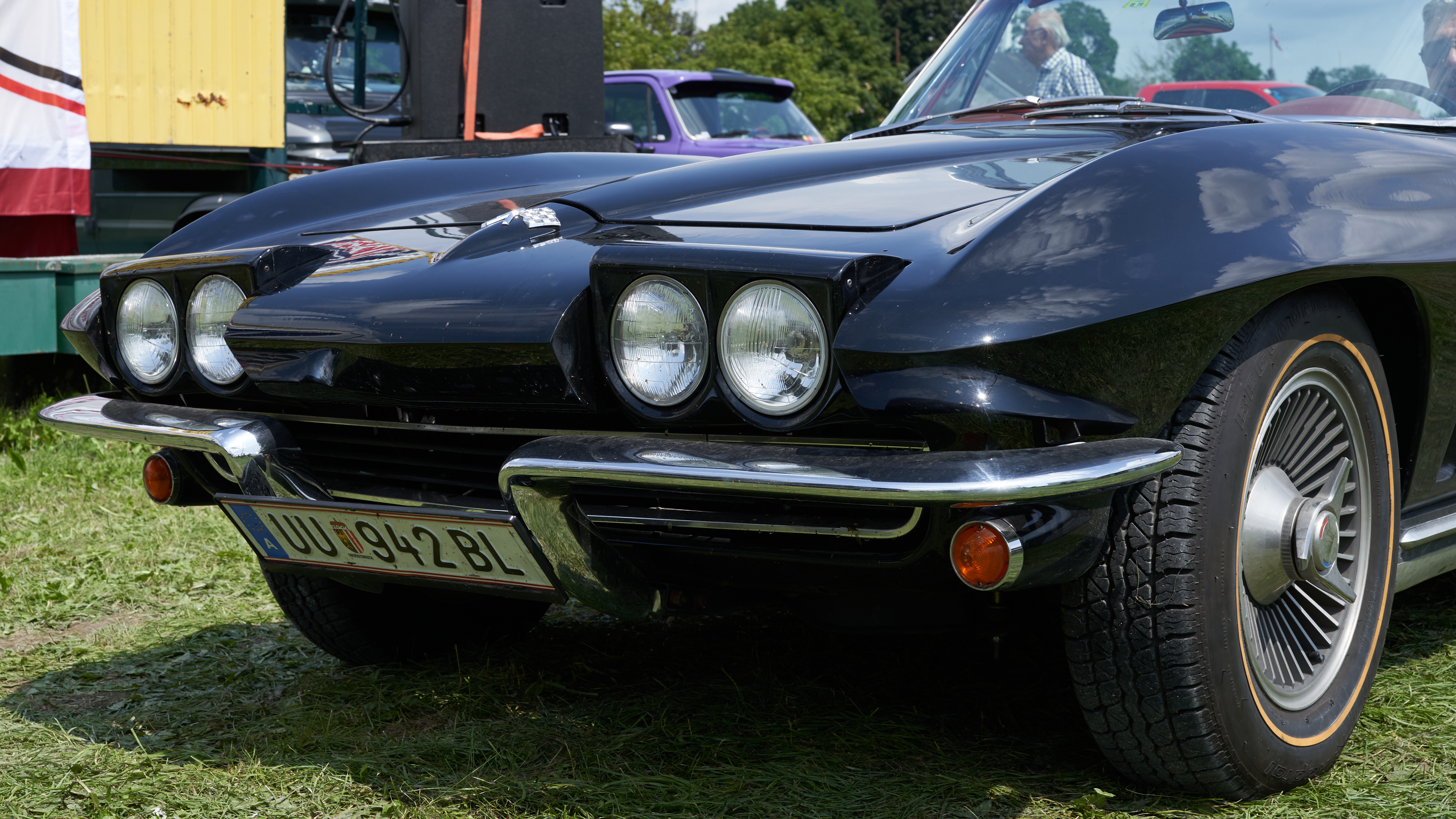 Pop up headlights turned approximately 135° along the lateral axis on a Chevrolet Corvette C2. Image taken at Austrian 500 US-CAR DAYS 2019.